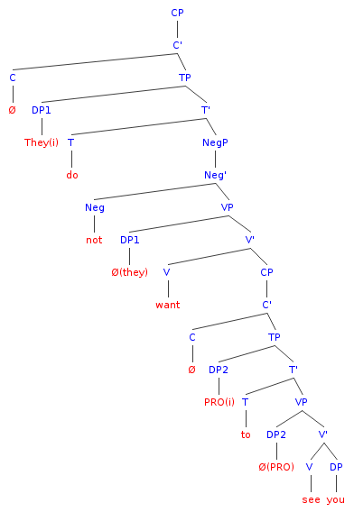 This is a syntactic tree diagram of the sentence "Kerry persuaded Sarah to study physics" in order to show the relation of PRO ('big pro') in a negative sentence.